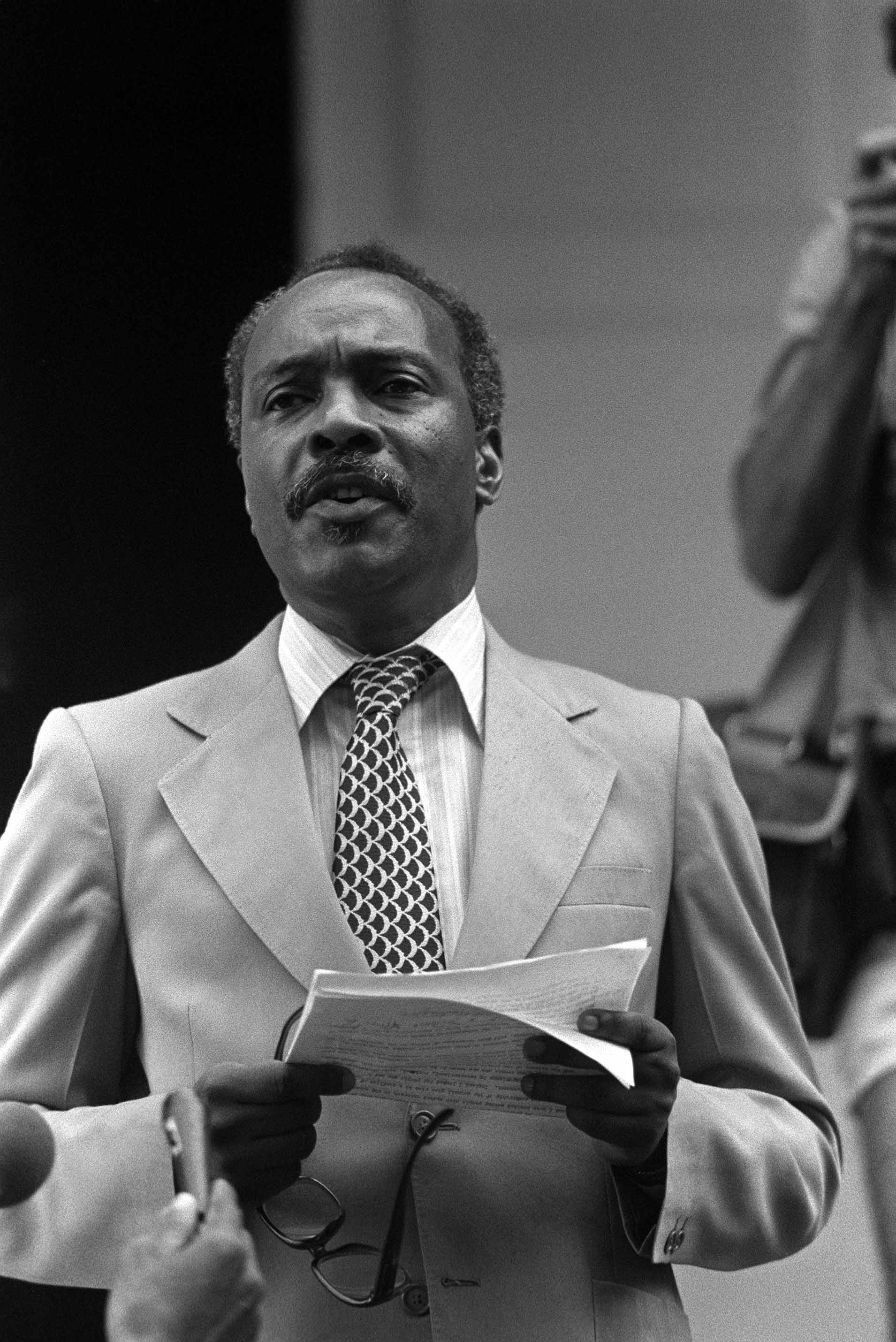 Governor-General Sir Paul Scoon speaks to members of the media after taking over as head of the new provisional government that was formed after Operation Urgent Fury.